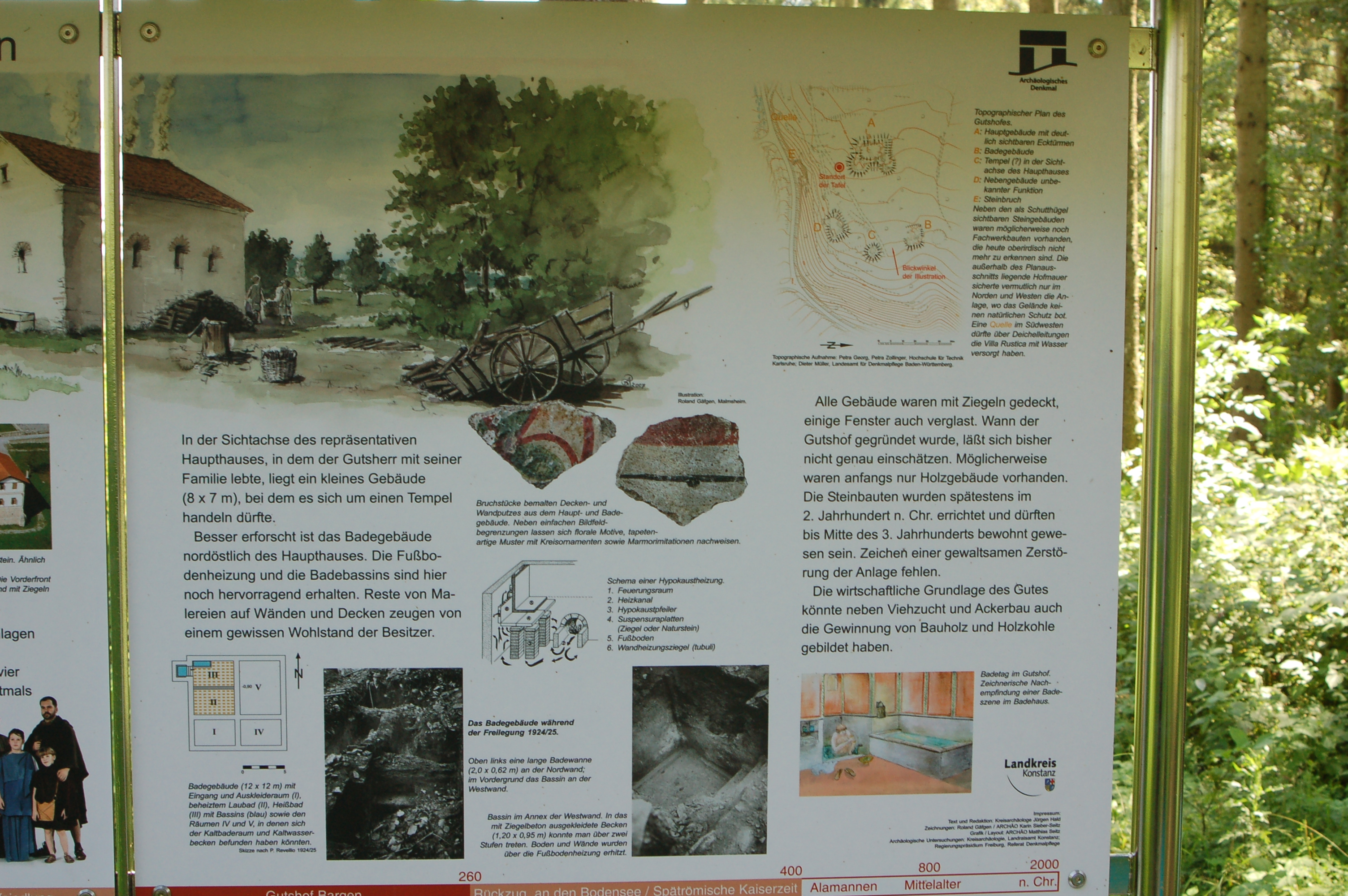 Information plate at the roman farmstead at Engen-Bargen, Germany